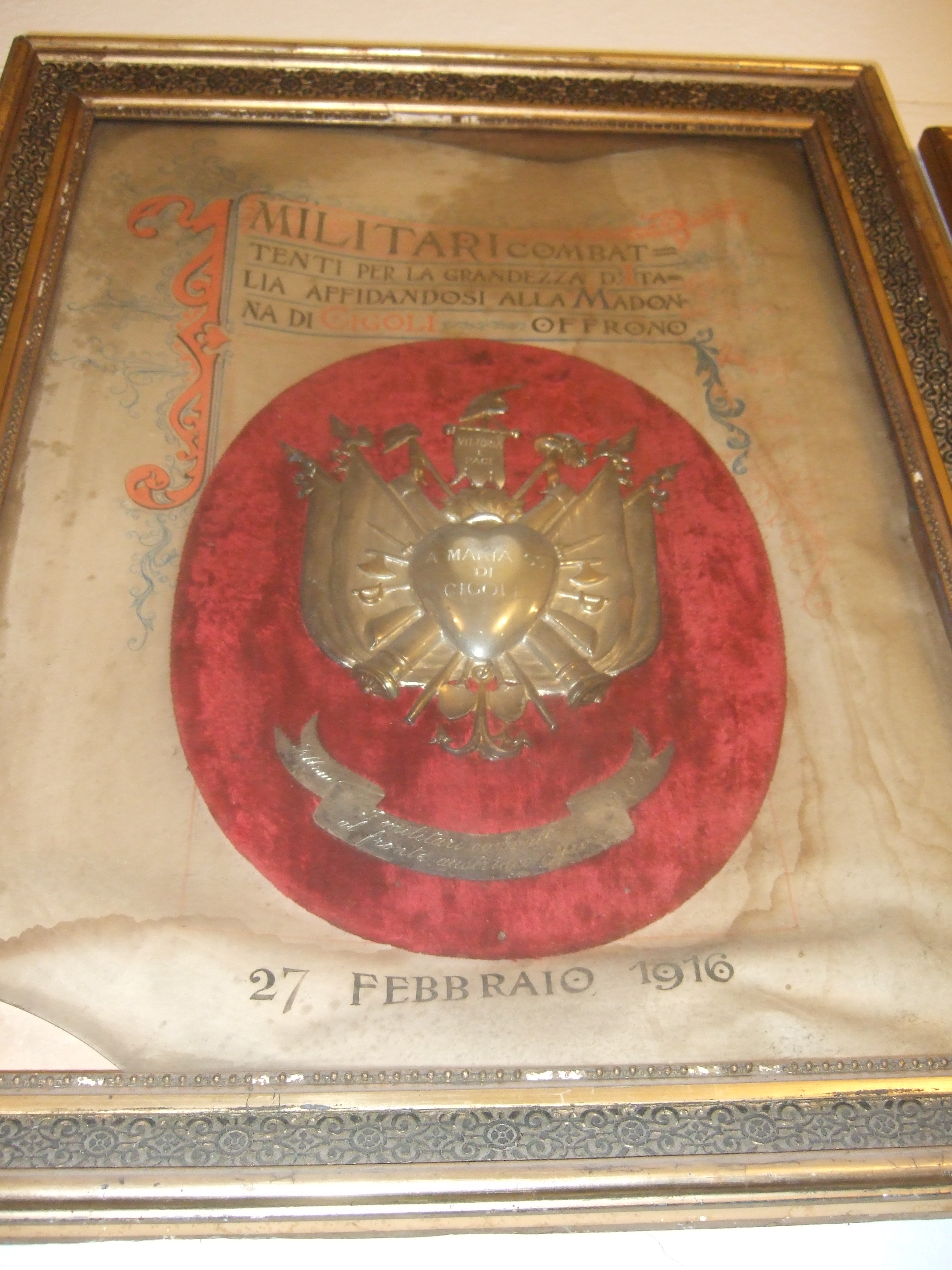 Santuario Madre dei Bimbi Cigoli interno